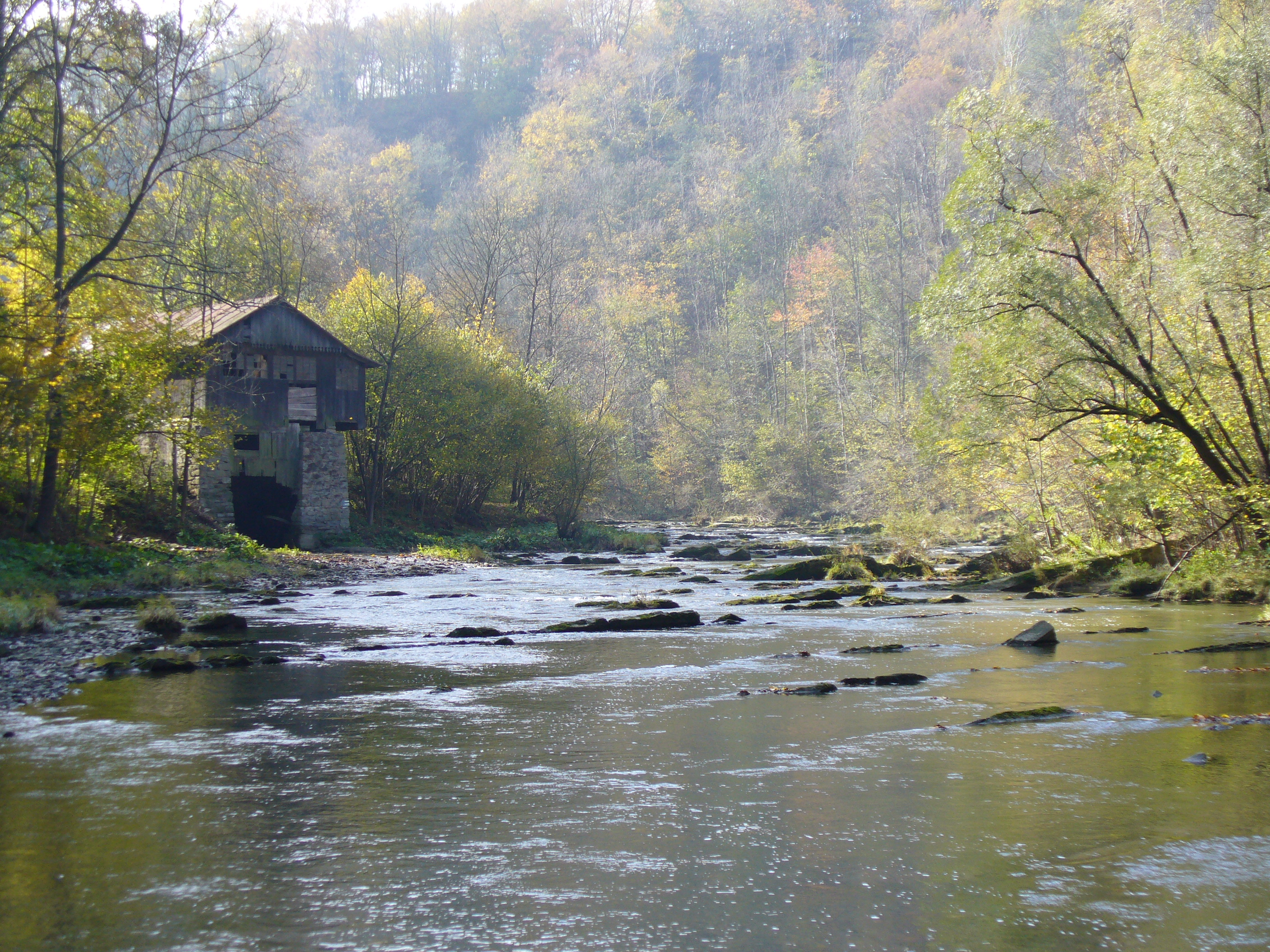 Besko